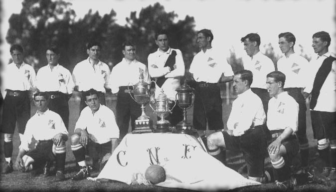 The Club Nacional de Football team posing with all the trophies won in 1915: Tie Cup, Primera División de Uruguay and Copa de Honor Cusenier.